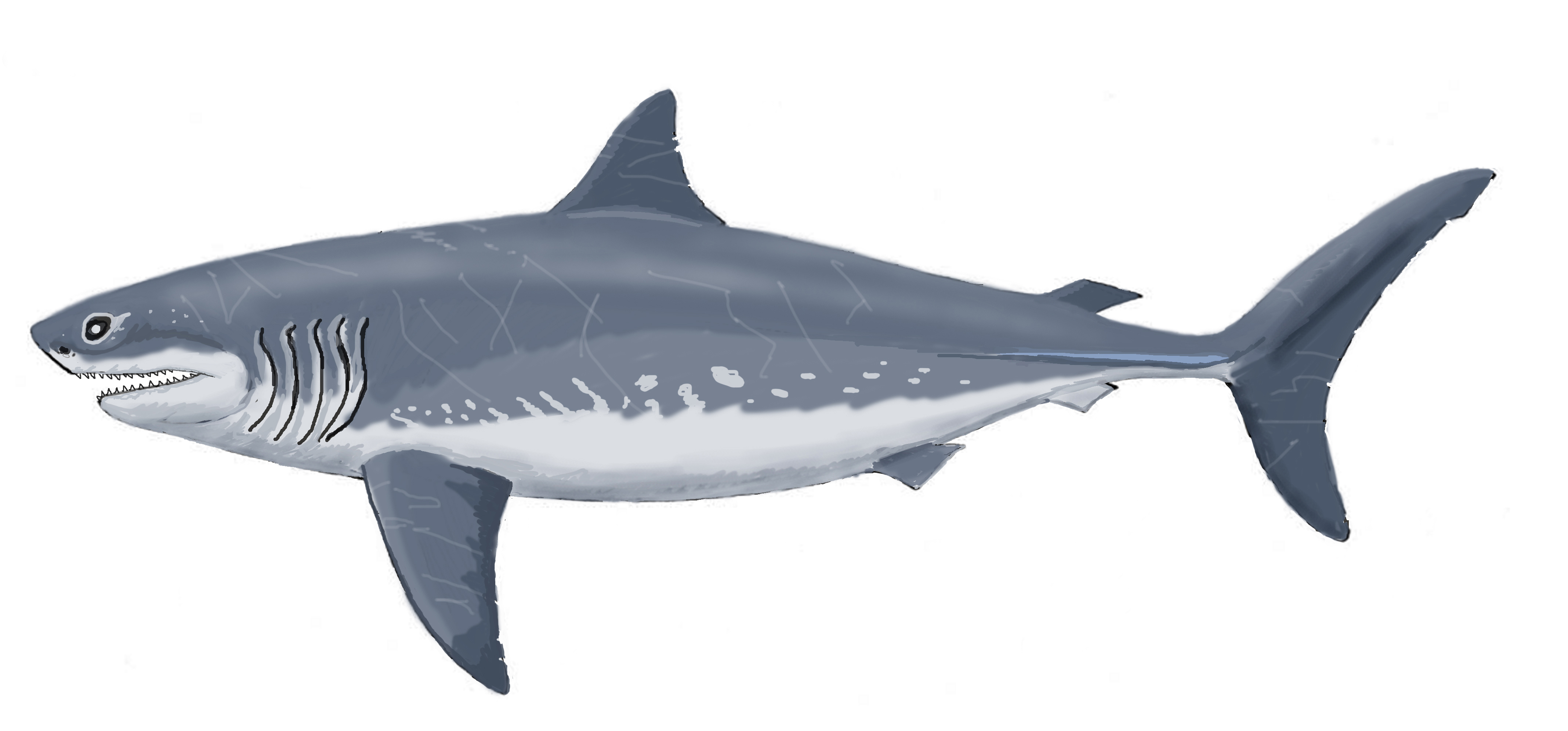 Cretoxyrhina mantelli - new version. Lamnoid shark from Cretaceous of Kansas